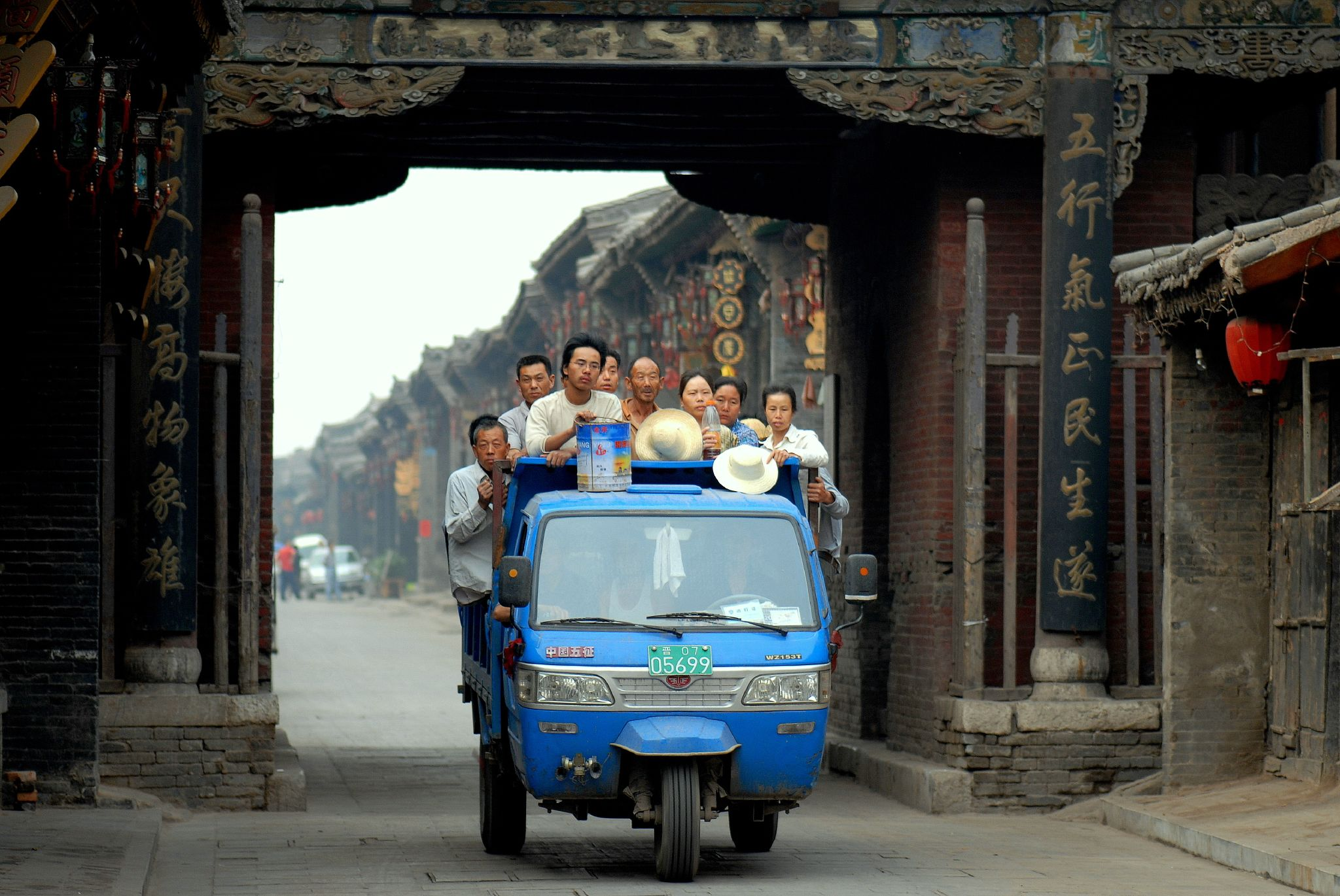 Chinese rural citizens are going downtown to Pingyao for work earlier morning in June 2007